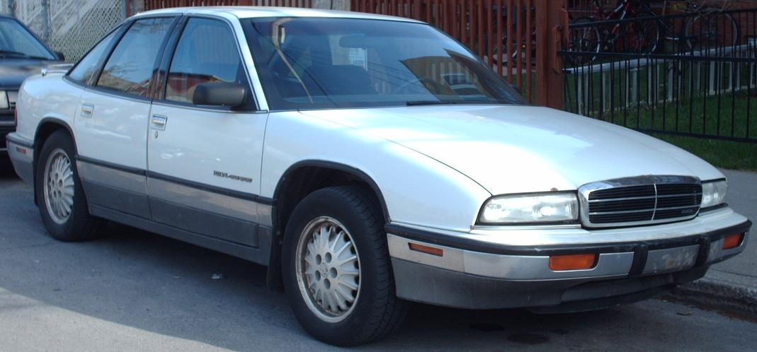 1990-1994 Buick Regal Gran Sport in Montreal, Quebec, Canada.